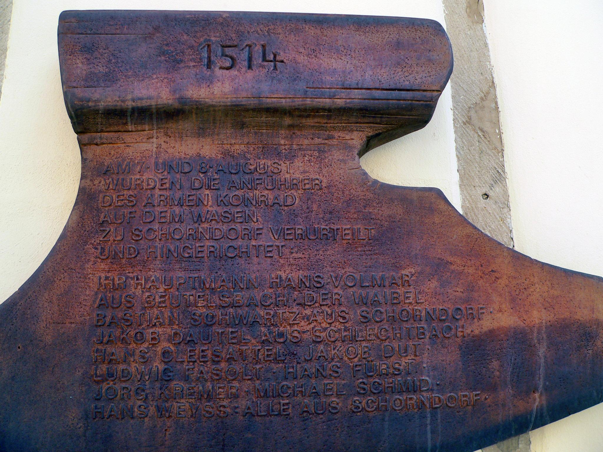 "Armer Konrad" by Hans-Dieter Bohnet, 1991, Schorndorf, Germany